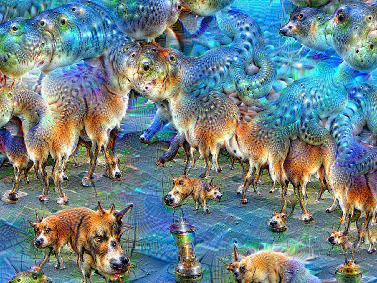 50 iterations of applying DeepDream